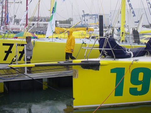 The IMOCA sailboat Bonduelle at the start of the 2004 edition of the Vendée Globe. Les Sables d'Olonne, France.